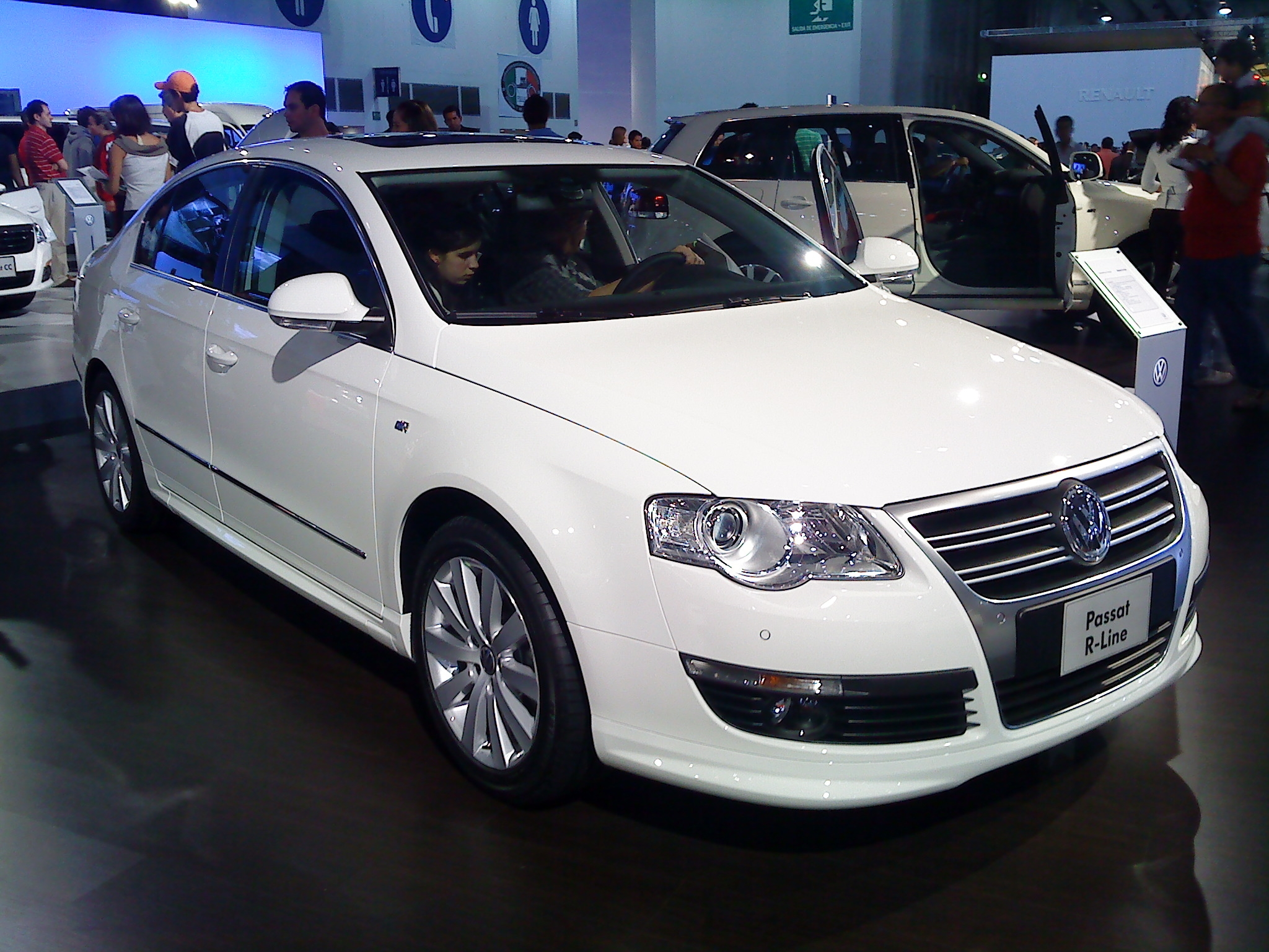 A Volkswagen Passat 2.0T R Line at the 2008 SIAM.